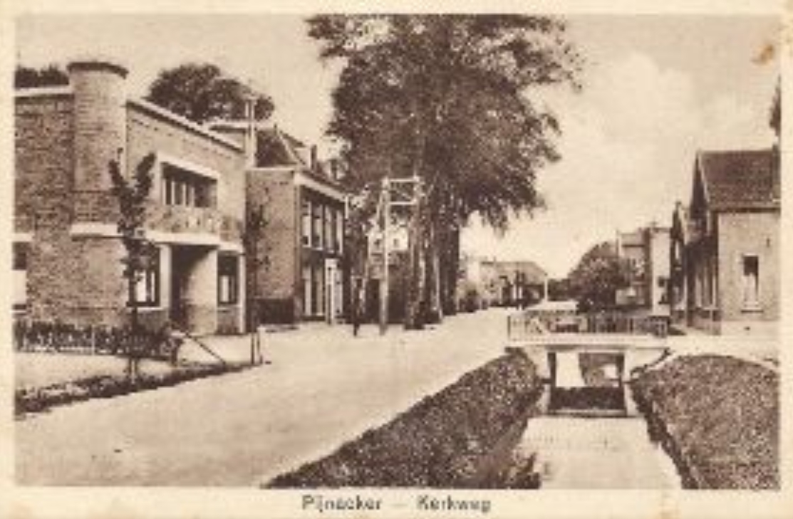 Kerkweg, Pijnacker 1931